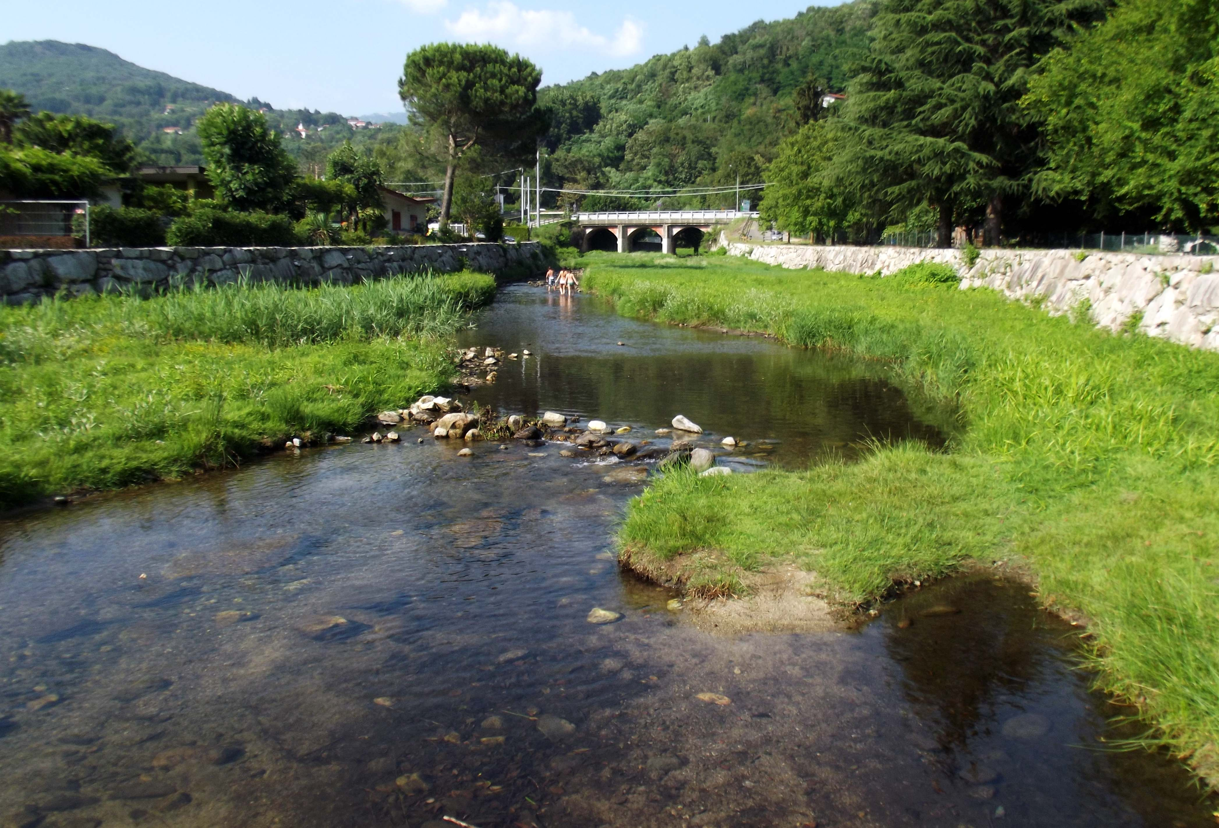 Pescone creek in Pettenasco, near its confluence in the lake Orta (Italy)